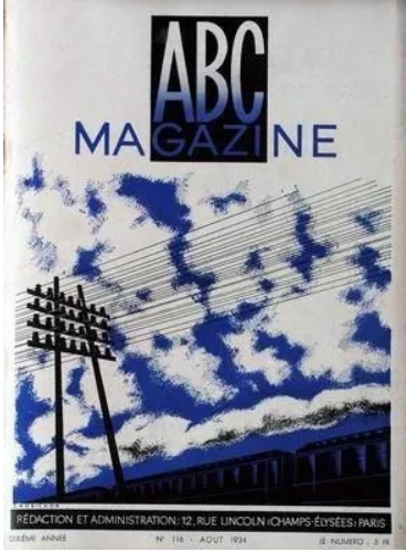 ABC Magazine, cover of a magazine printed in Paris.